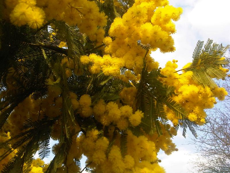 Mimosa scabrella flowers in London, England.